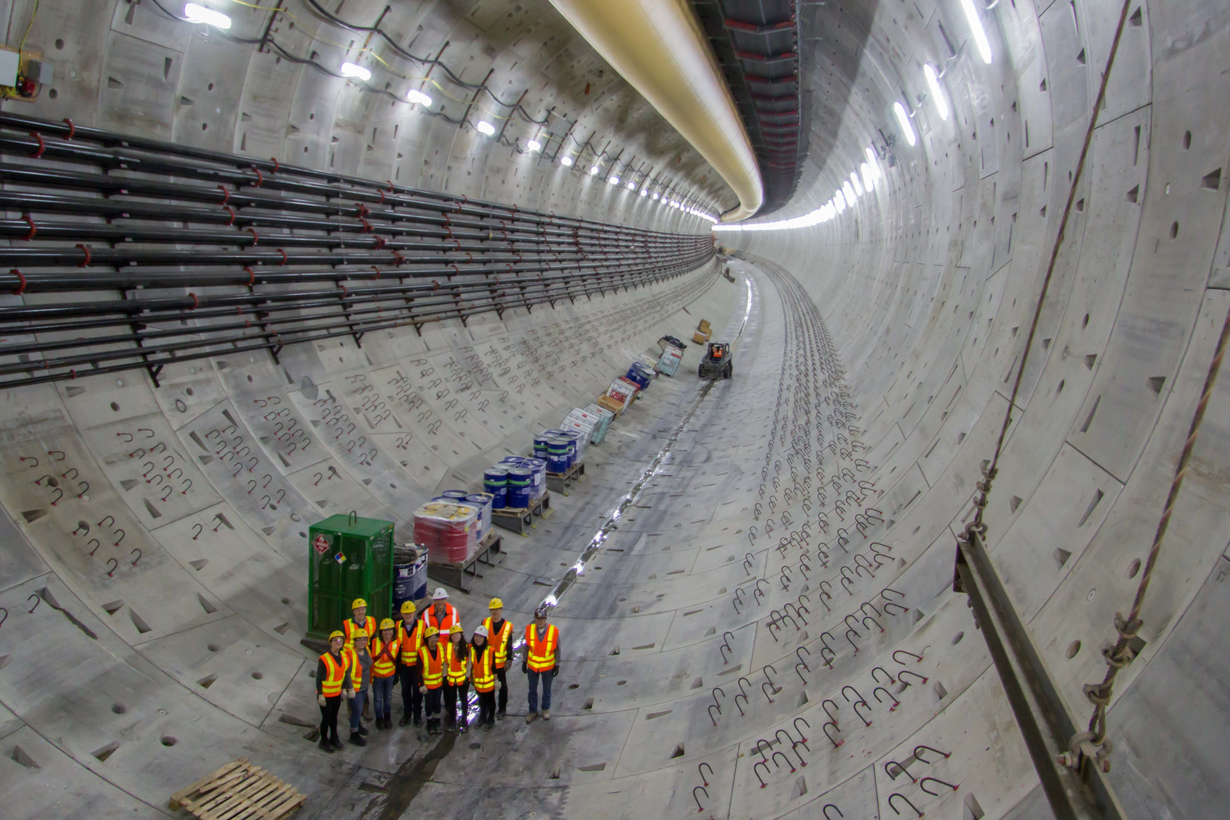 CMs Burgess and Juarez toured progress of Bertha on 1/6/17. The tunnel boring machine was underneath Bell St in Belltown.